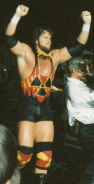 An image of professional wrestler Adam Bomb from 1995.